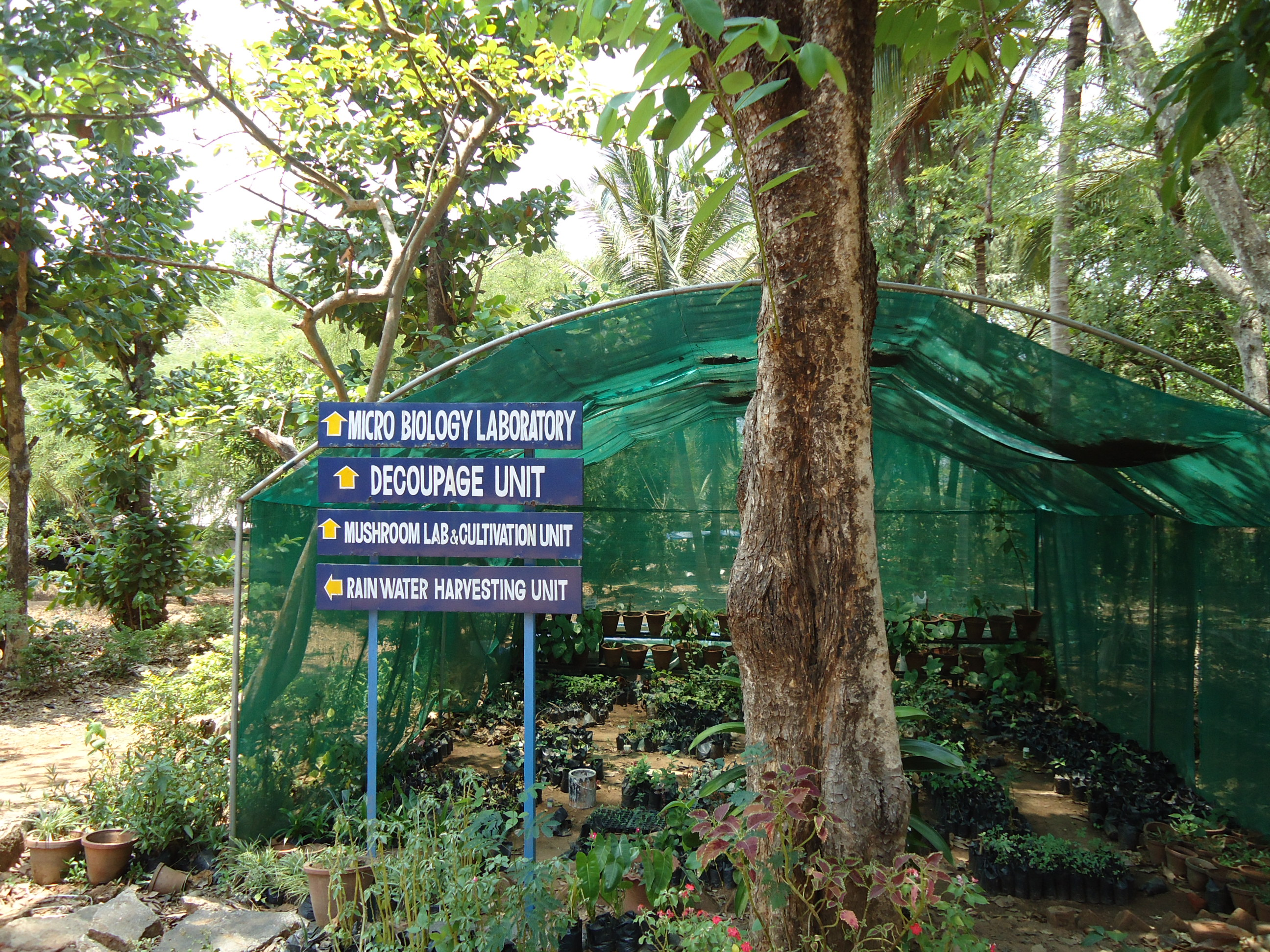 Integrated Rural Technology Center Mundur palakkad Board.